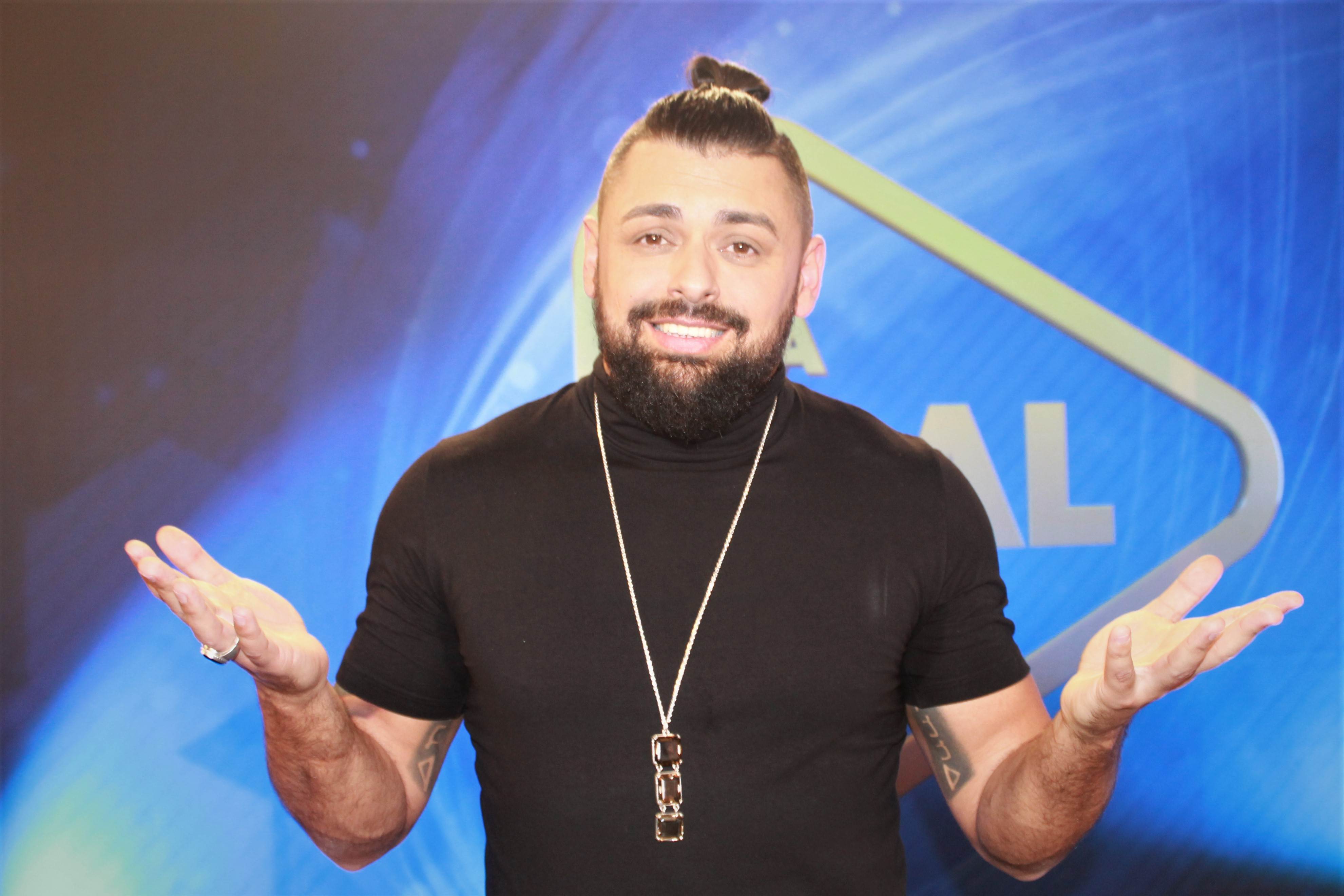 A Dal 2019 winner: Joci Pápai